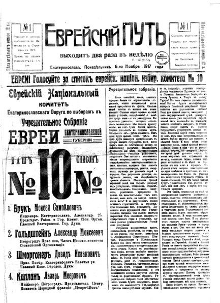 cover of Evreisky Put', 1917, calling for vote to list 10